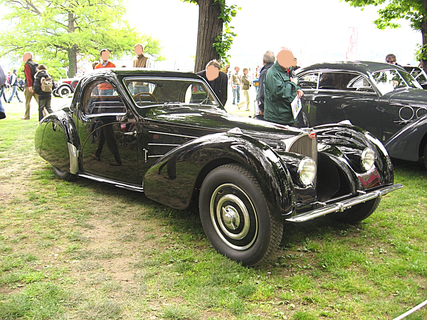 Subject:Bugatti Type 57 SC Coupé Atalante by Gangloff (Colmar (1937) Date:April 27th, 2008 Event:Concorso d’Eleganza”Villa d’Este” 2008 Place/Country: Cernobbio (CO), Italy I release all rights in the public domain.